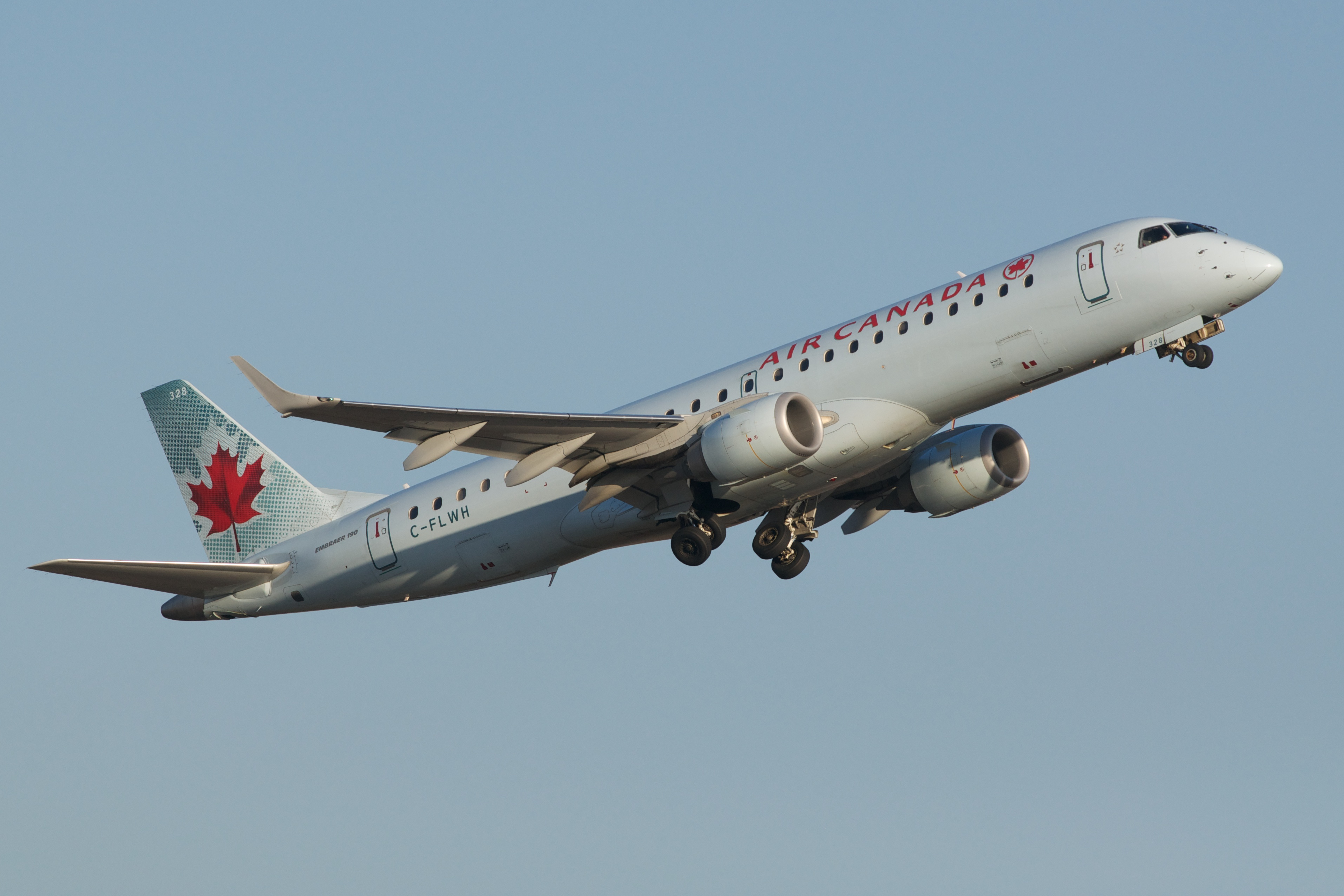 Air Canada EMB-190 departing Runway 23.